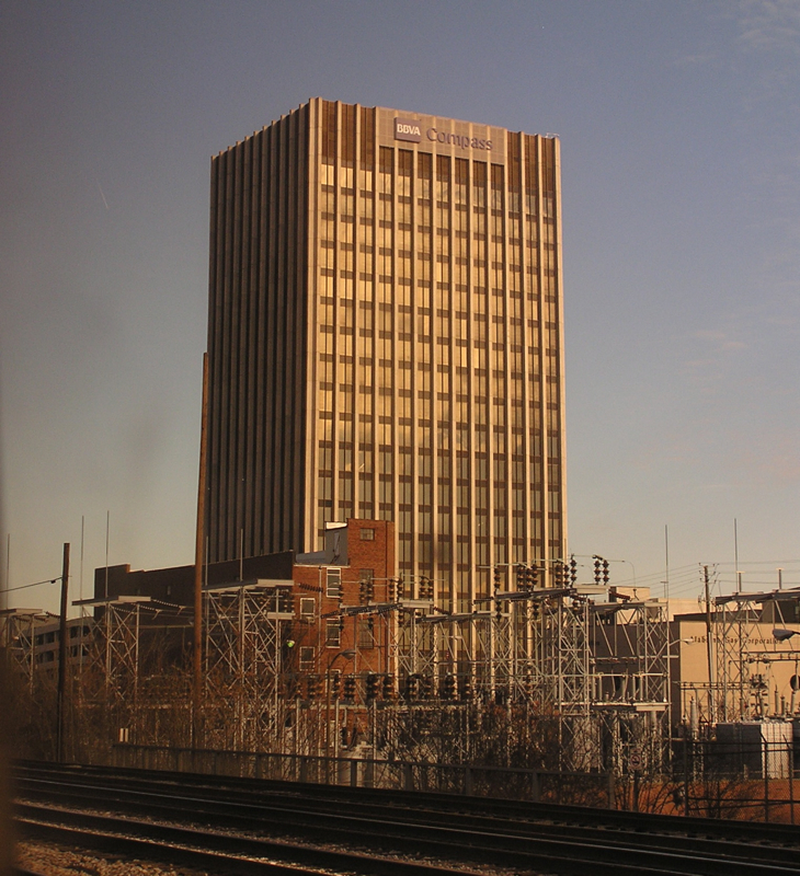 Daniel Building; Birmingham, Alabama; January 2011.